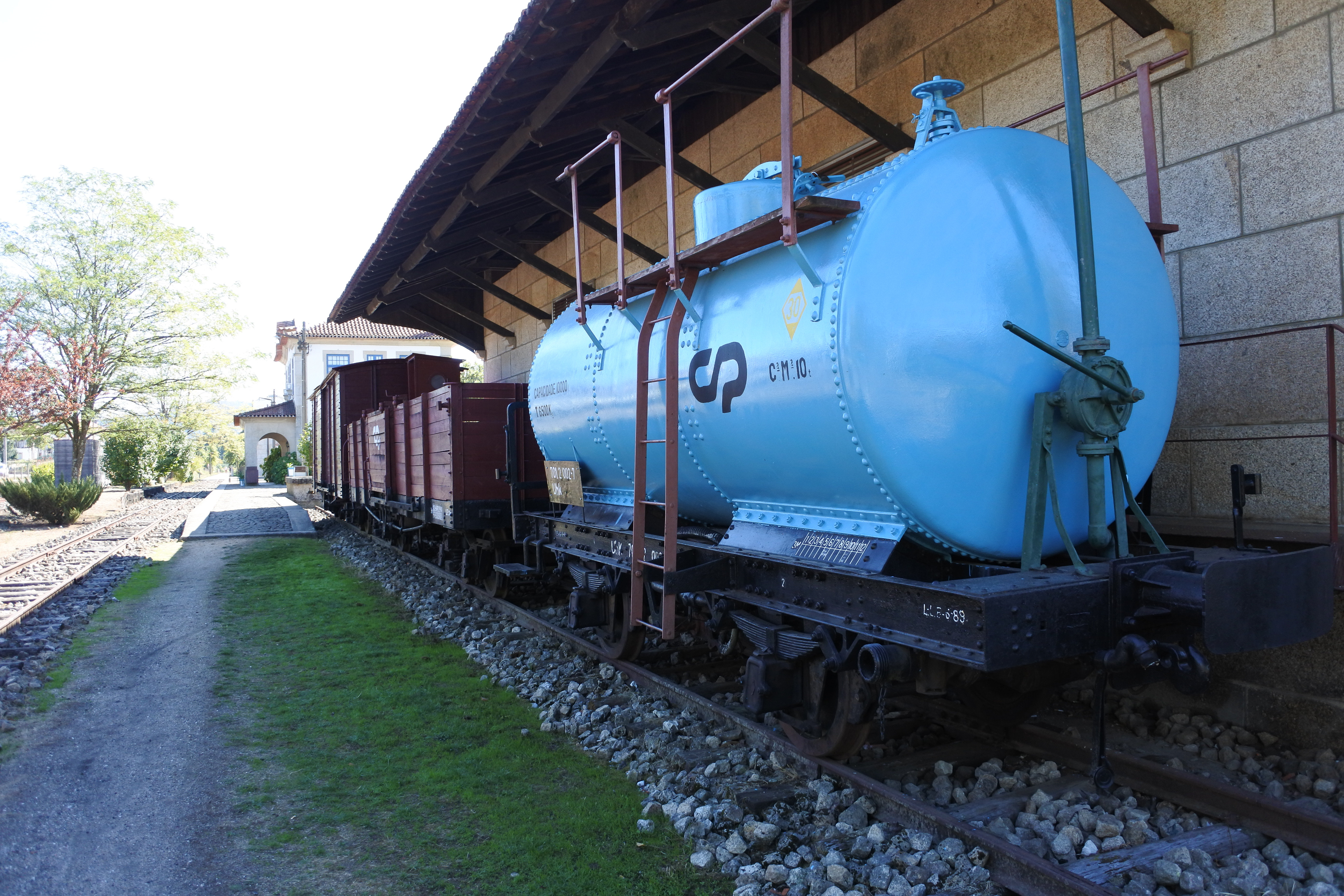 Old train station of Arco de Baúlhe, the start of Arco de Baúlhe - Amarante cyclepath, also known as "Tamega cyclepath", since it mostly follows the valley of the Tamega river.